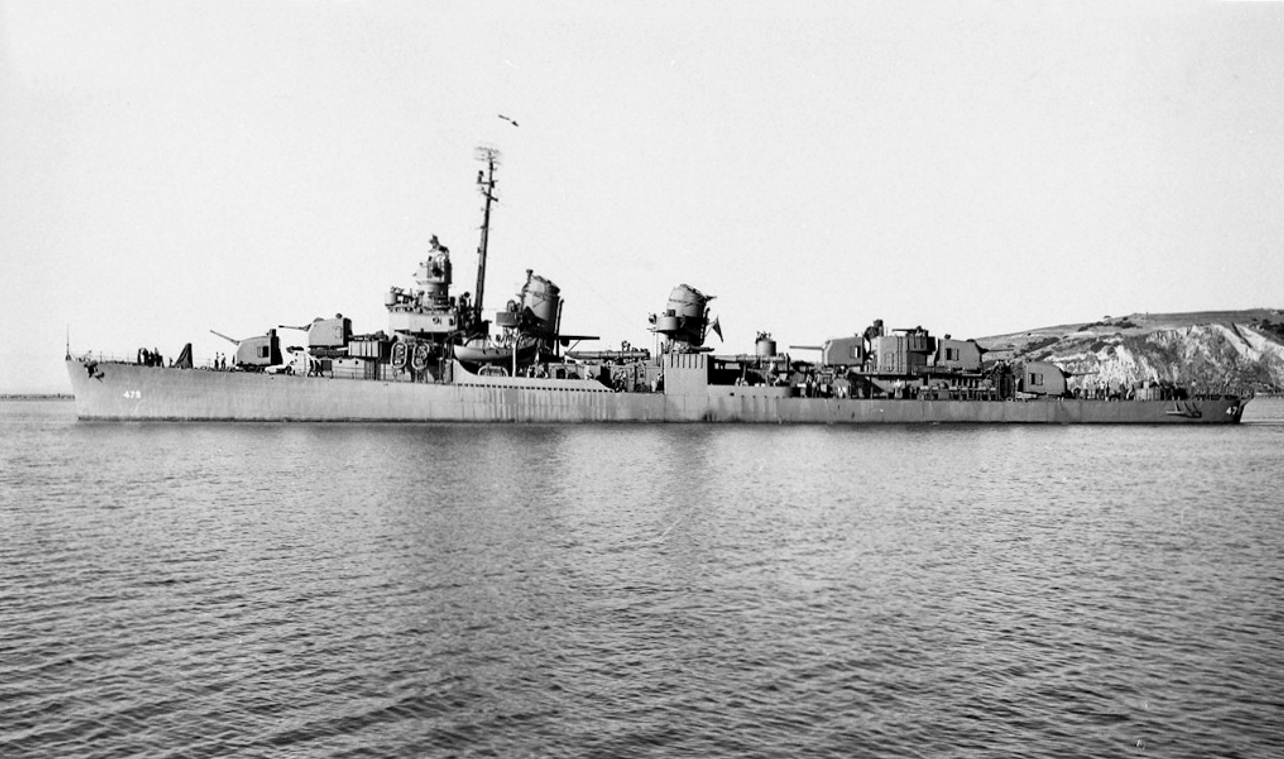 The U.S. Navy destroyer USS Stevens (DD-479) off the Mare Island Naval Shipyard, California (USA), on 1 December 1943. Note that the catapult has been removed and been replaced by a second set of torpedo tubes and a 127 mm gun mount.